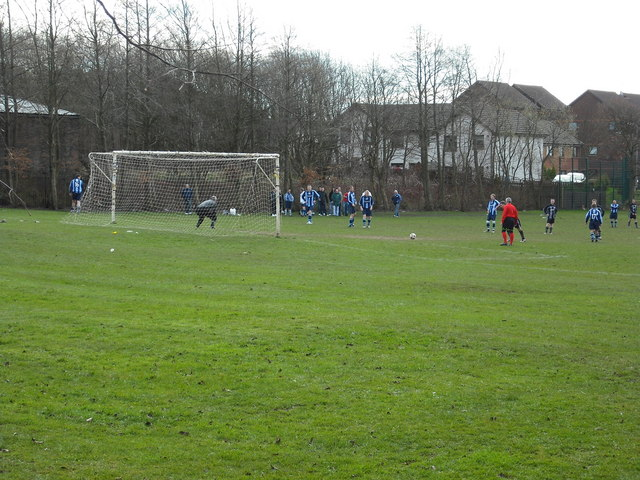 Penalty kick in Central Park Passing by I witnessed a hand ball on the line and a red card. The goalie saved the penalty kick.